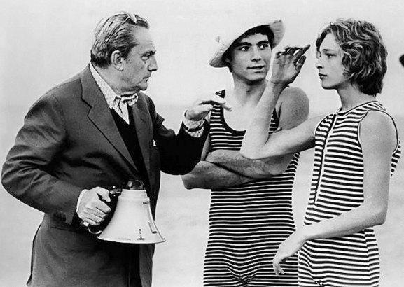 From the recording of the film "Death in Venice", from left director Luchino Visconto, Sergio Garfagnoli (playing Jaschu) and Björn Andrésen (playing Tadzio).